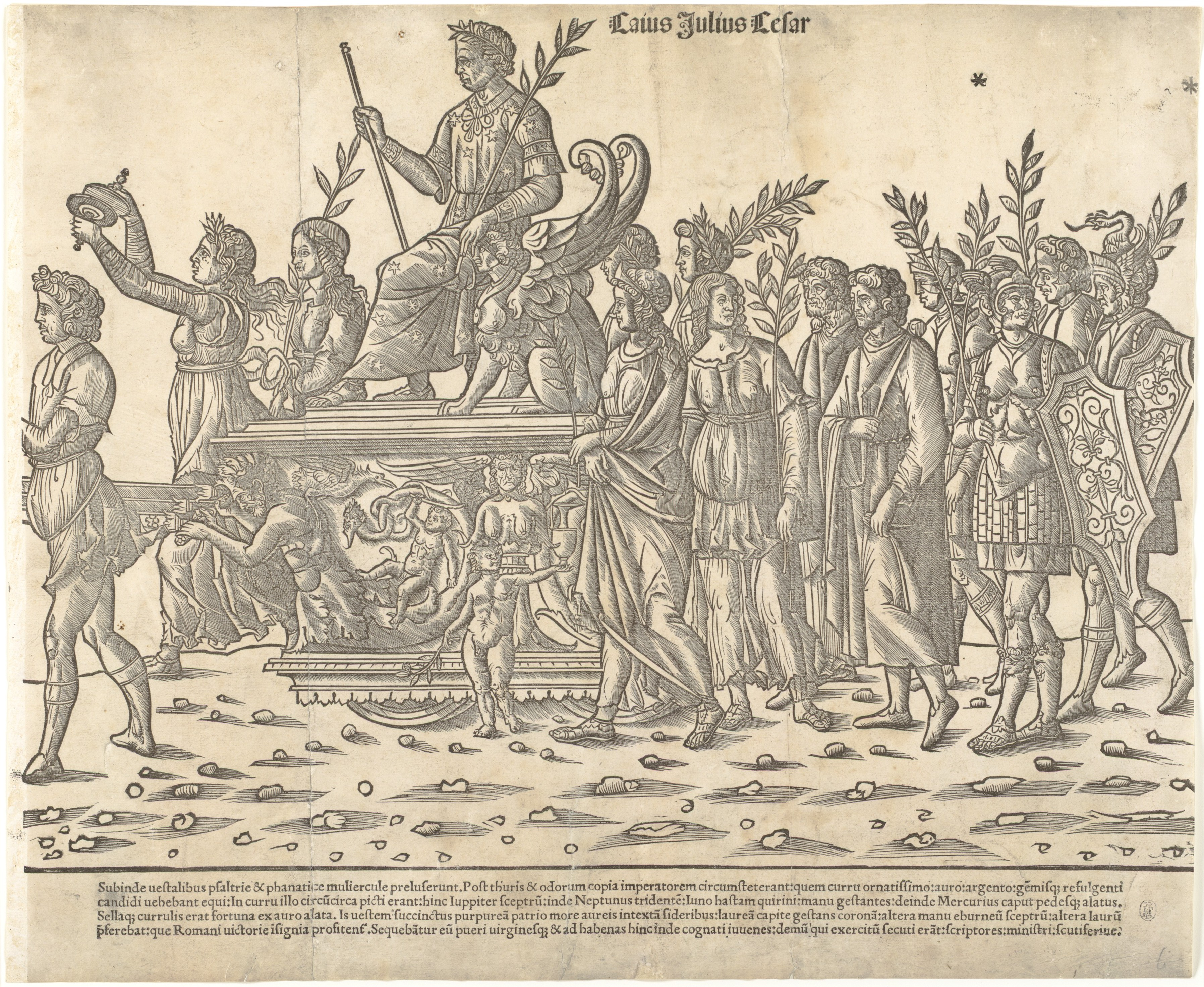 Print; Prints